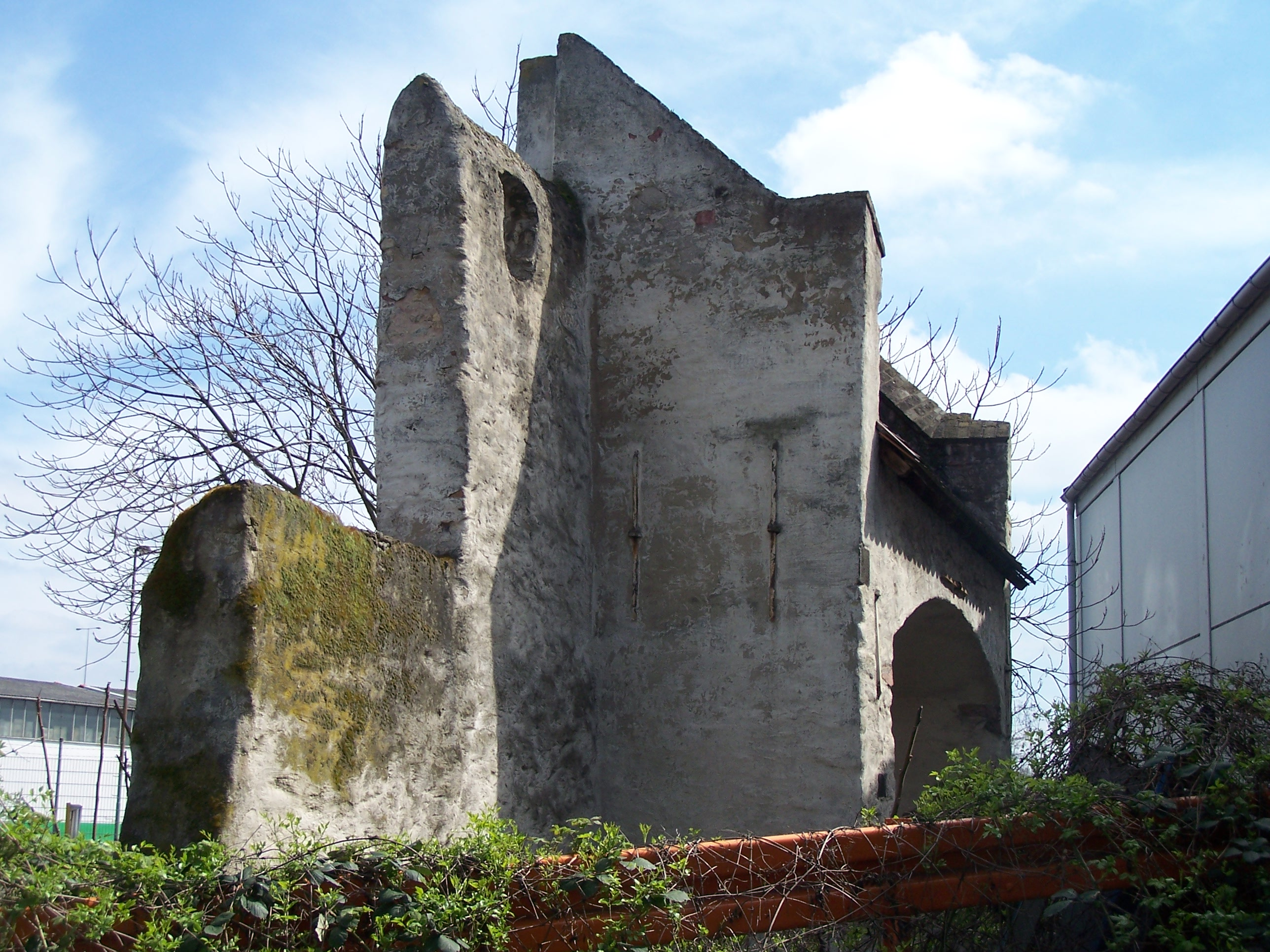 Gate of the the Riederhöfe (15th c.) in Frankfurt-Ostend